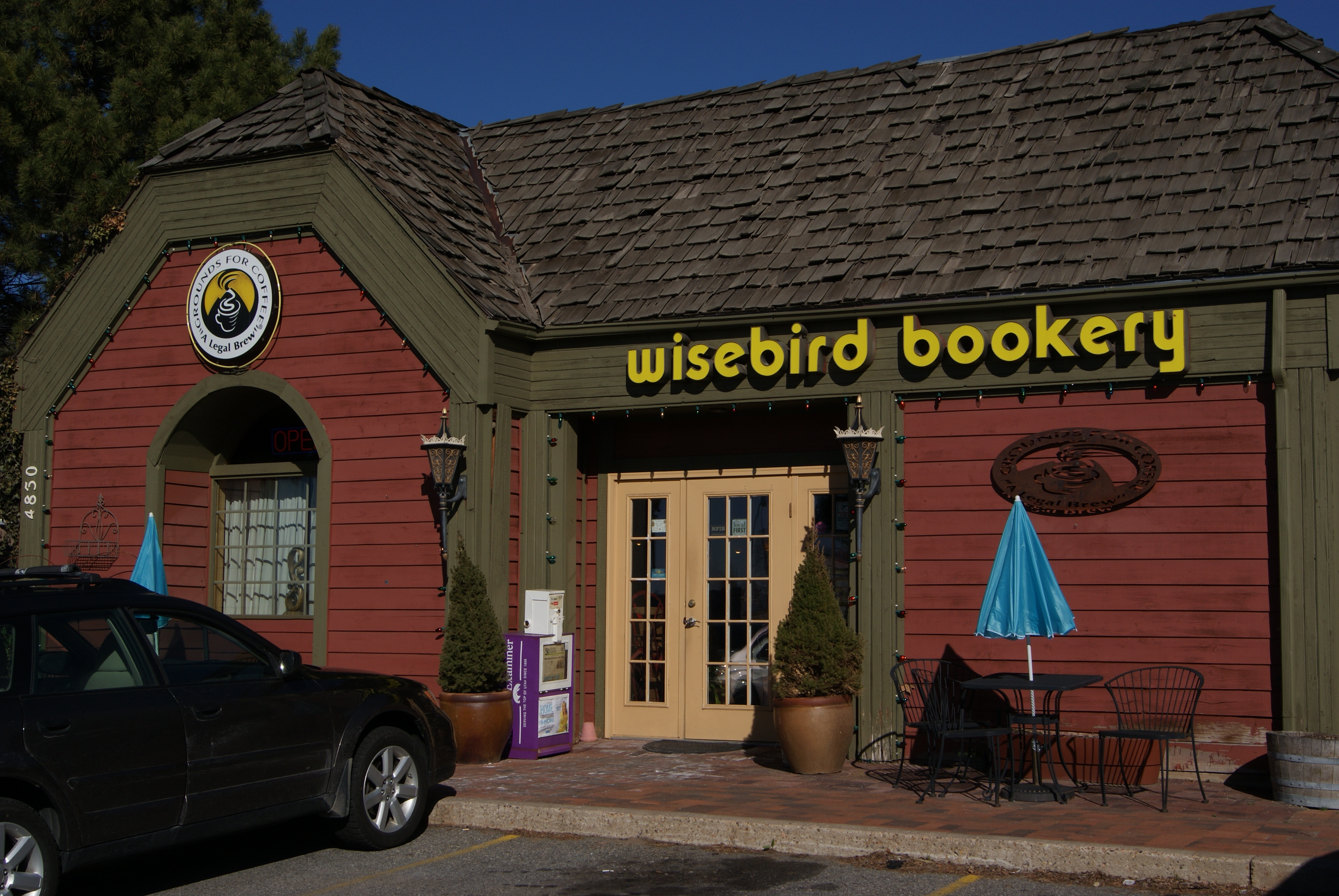 Grounds for Coffee in Ogden, Utah at the Birdwise location on Harrison Blvd.